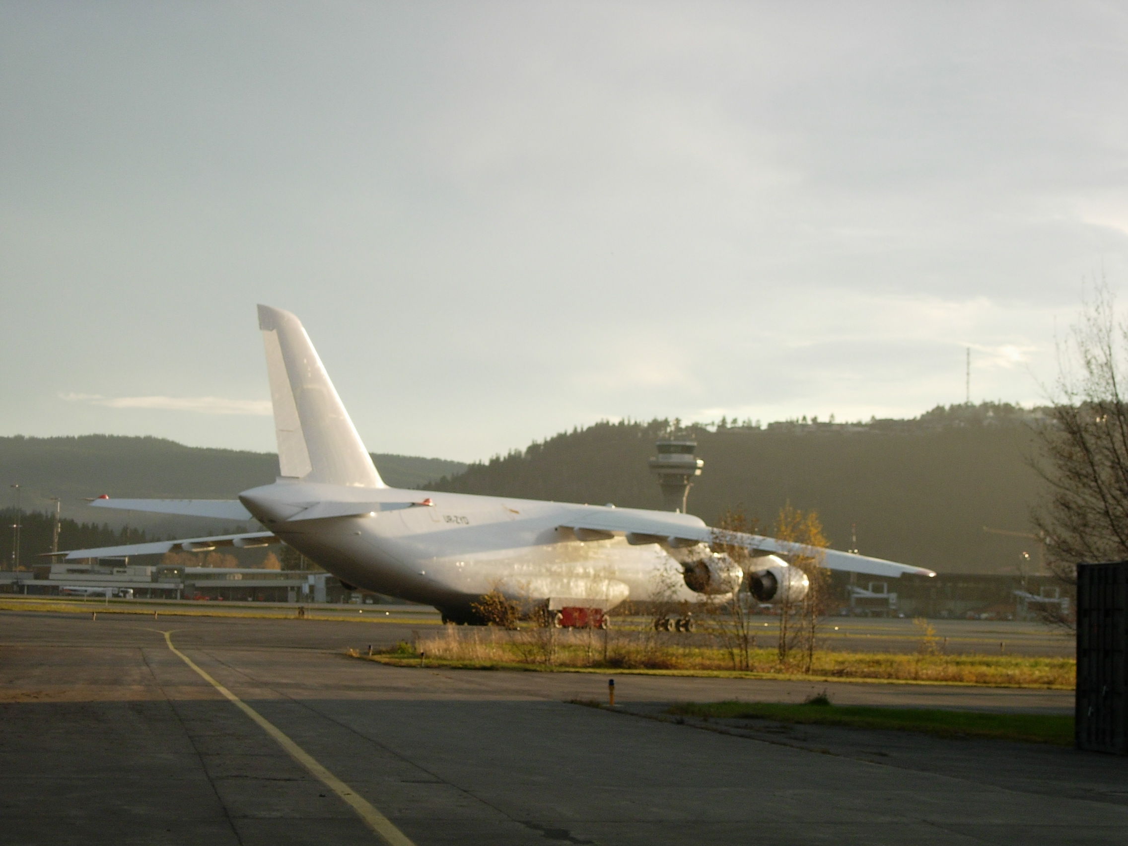 Antonov An-124 transportplane on Værnes lufthavn, Trondheim getting aid to the 2005 Kashmir earthquake